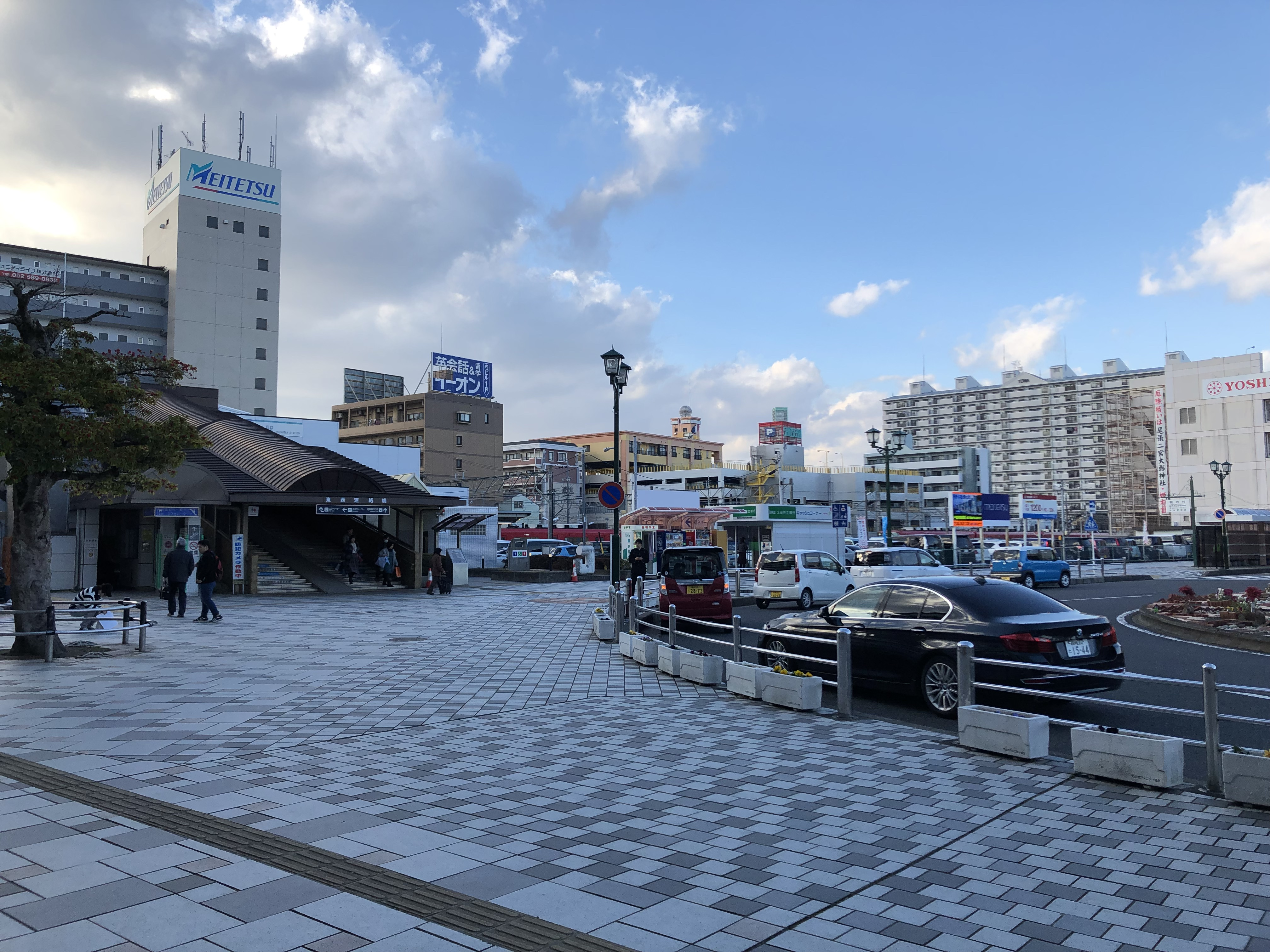 Inuyama Station East03